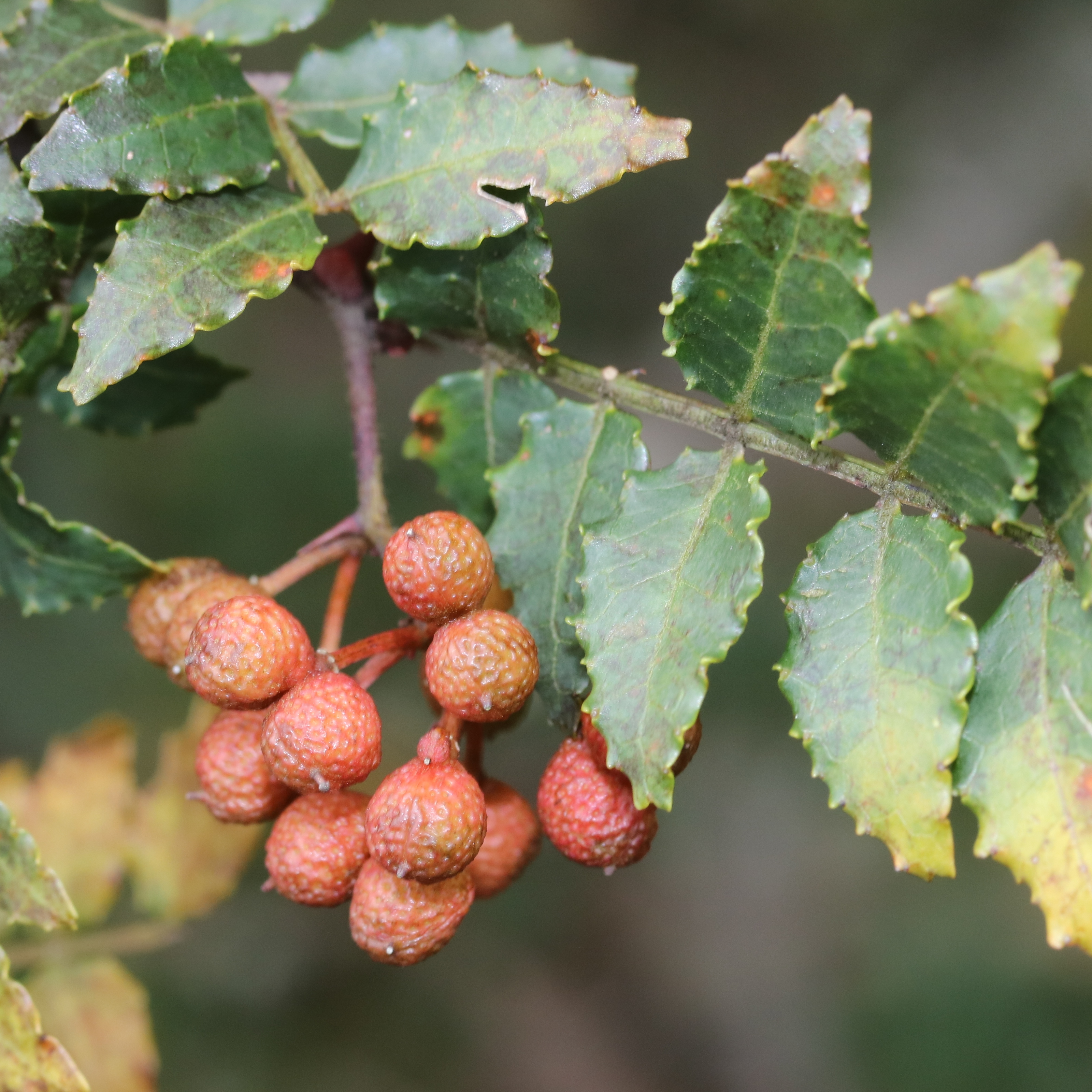 Zanthoxylum piperitum in Mount Fujiwara, Inabe, Mie prefecture, Japan